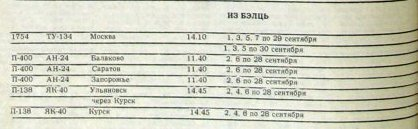 16 September to 31 December 1991 Flight Schedule from Balti Leadoveni Airport as published by Sovetskaya Moldaviya